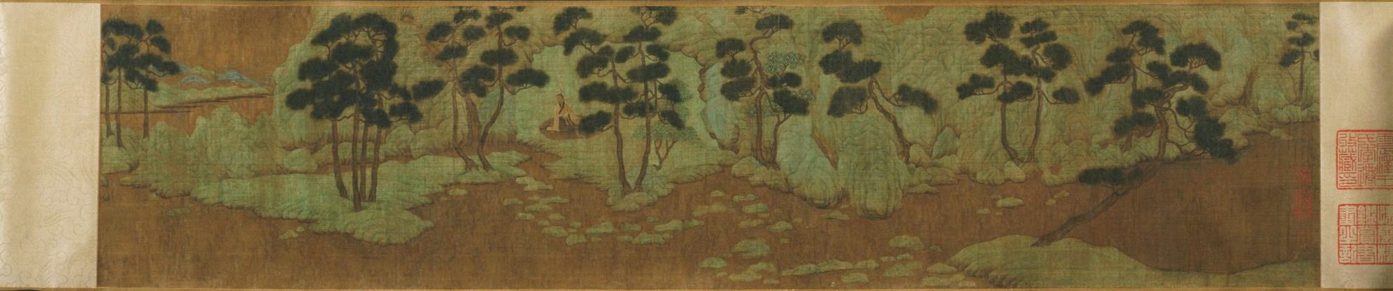 Zhao Mengfu Mind Landscape of Xie Youyu, ca. 1287 (27.4 x 117 cm) Princeton University Art Museum.